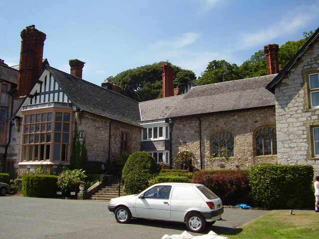 Gloddaeth Hall (St.David's College) A house with Tudor origins and Victorian grandeur, not far from Llandudno. In the 18th century the owners could drive from here to Liverpool without leaving their own land.